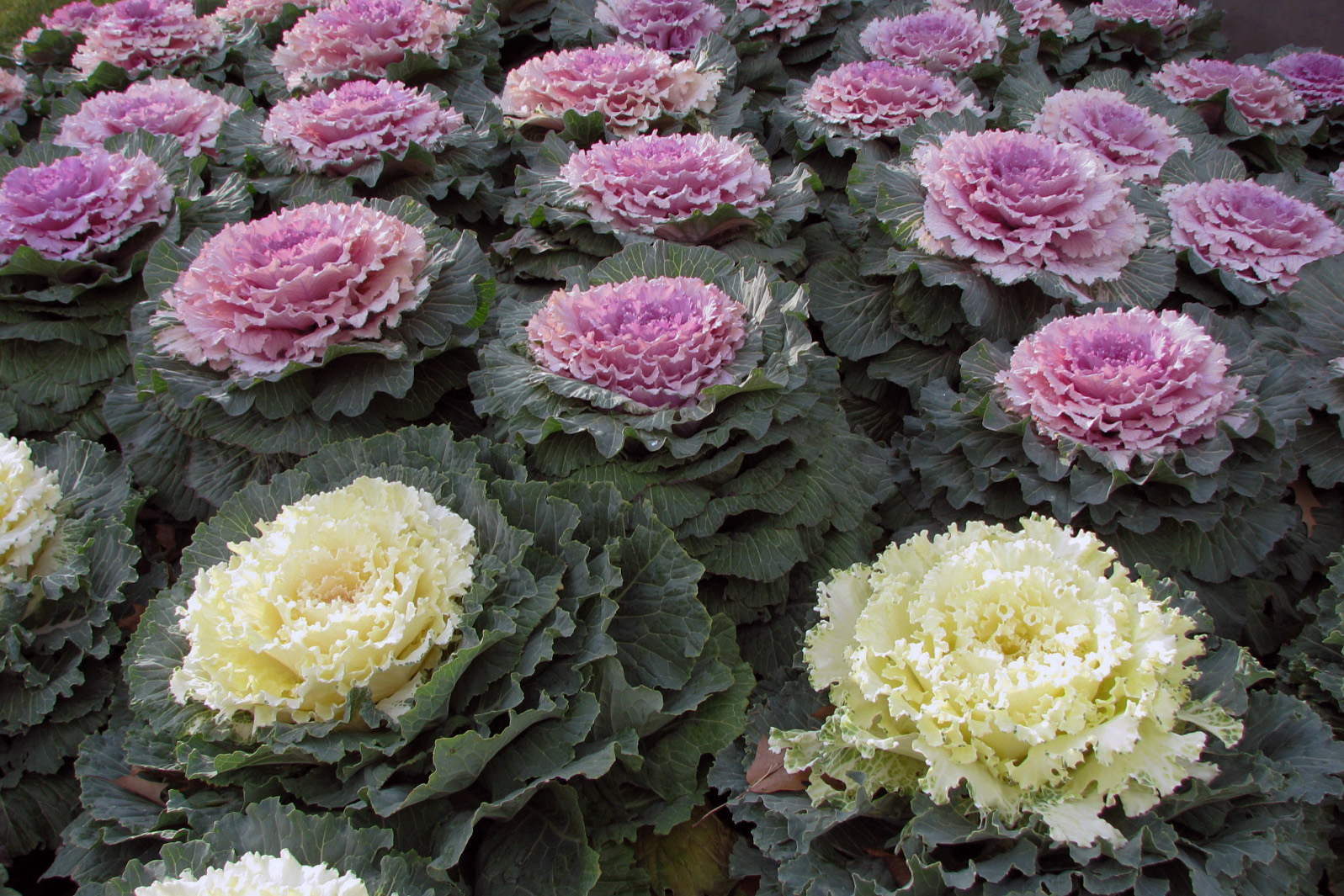 Ornamental Kale blooming in January in Washington, DC.